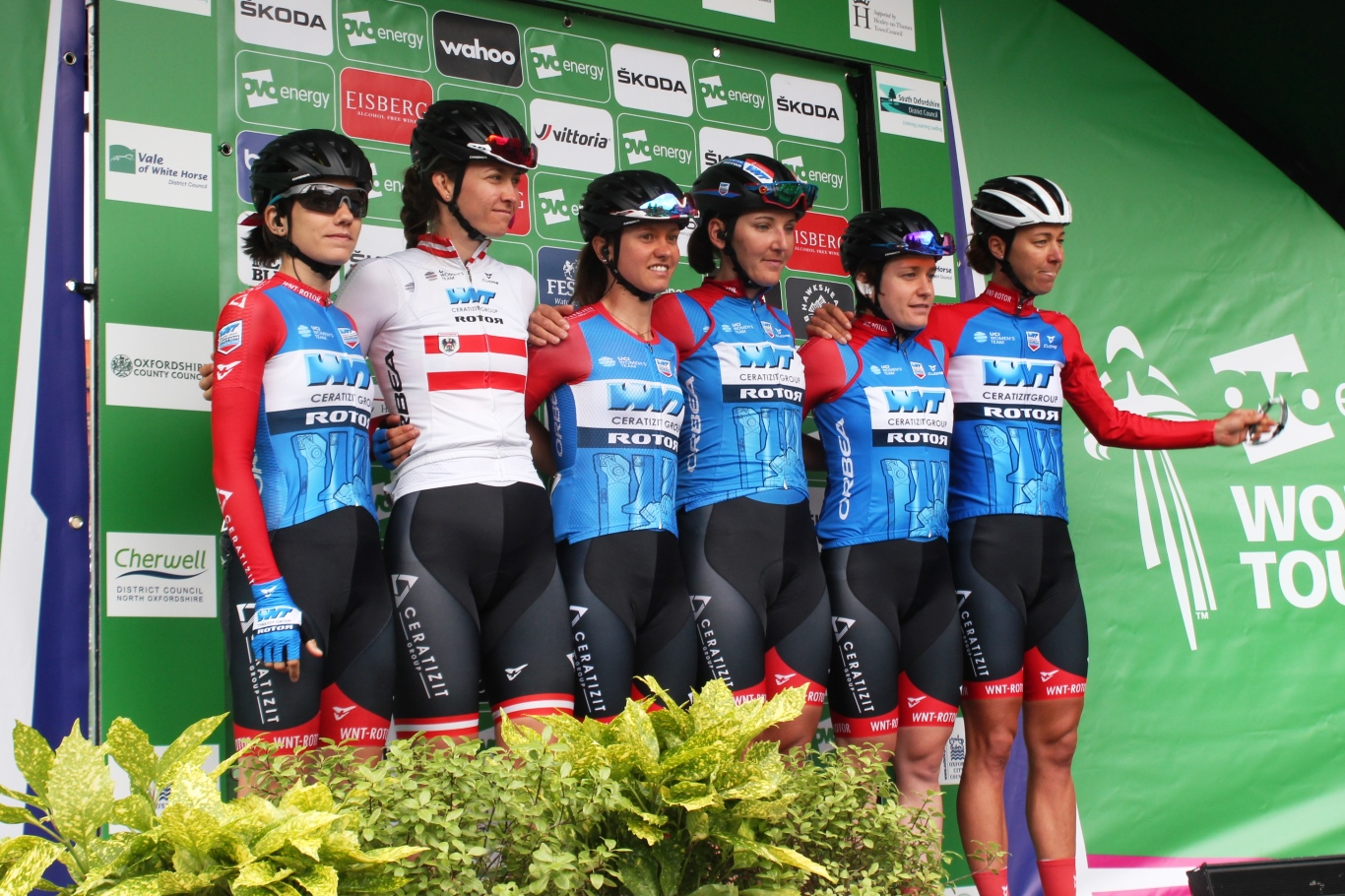 The WNT-Rotor team at the start of the third day of the 2019 Women's Tour. The riders are Lisa Brennauer, Janneke Ensing, Kathrin Hammes, Erica Magnaldi, Sarah Rijkes and Ana Santesteban.